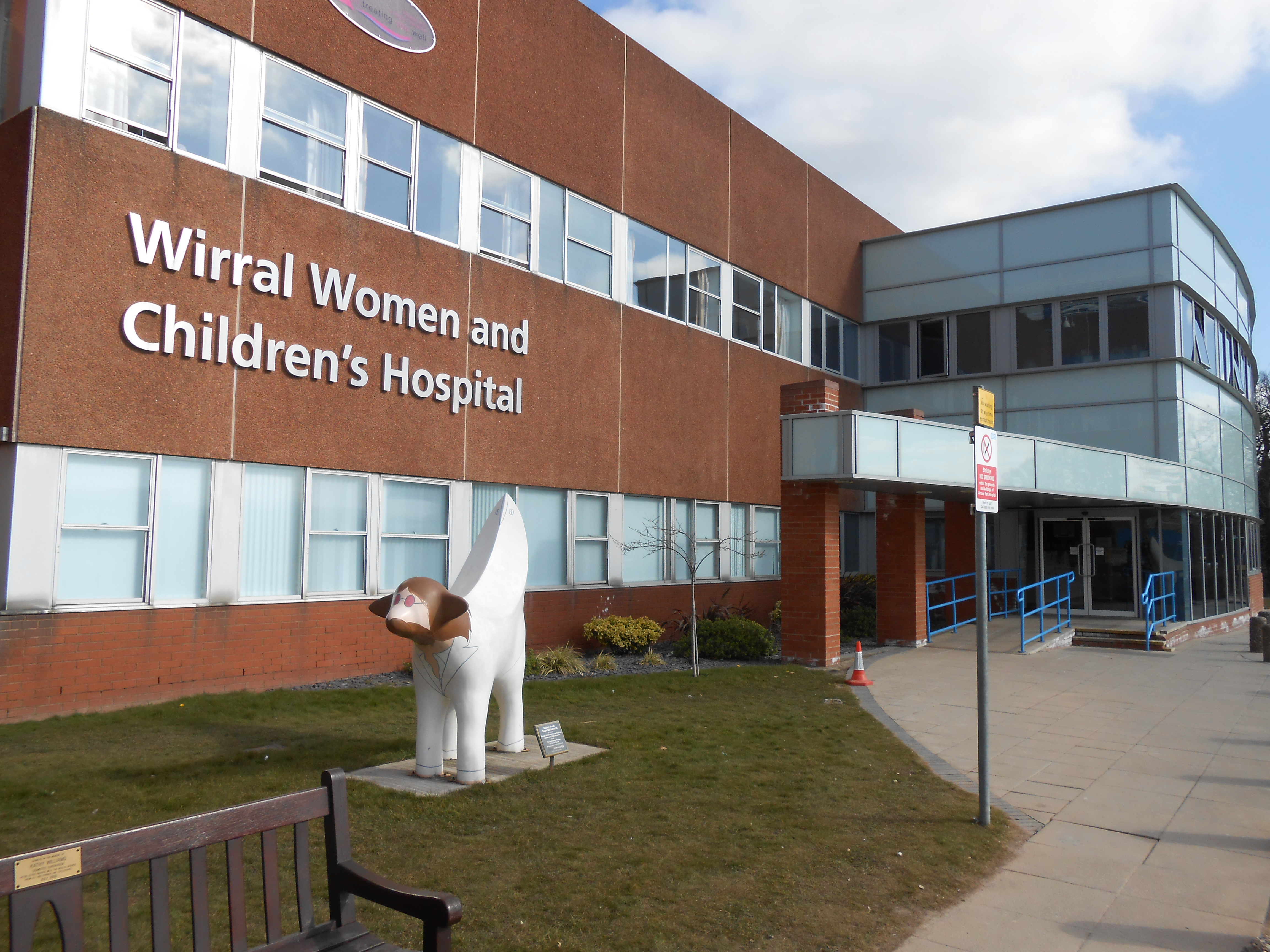 Photo taken at Arrowe Park Hospital, Wirral, Merseyside, England.